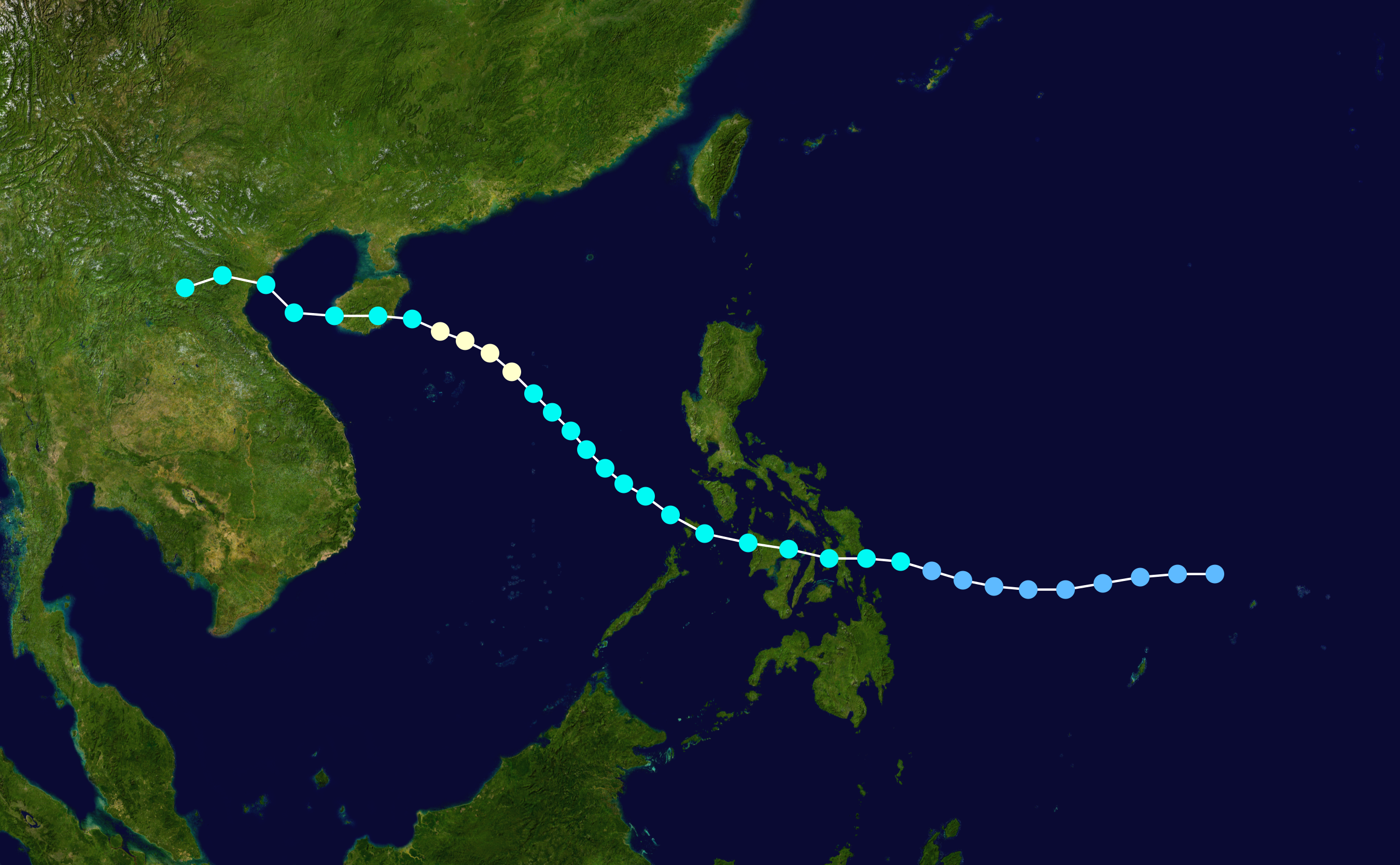 Typhoon Koni 2003 track. Uses the color scheme from the Saffir-Simpson Hurricane Scale.